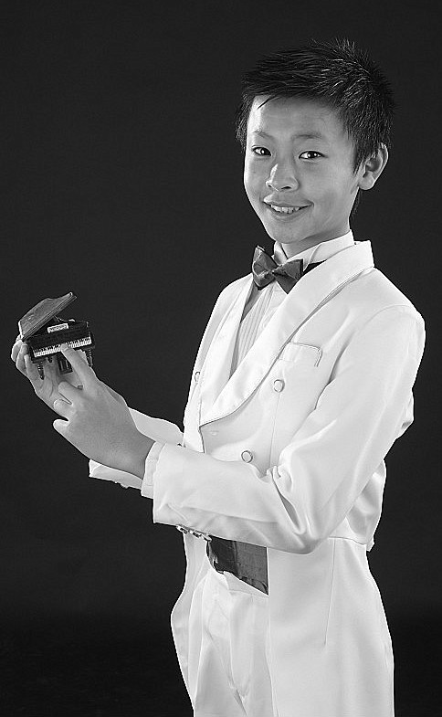 Oscar Yang, finalist in Holland's Got Talent